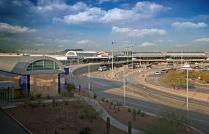 A view of Tucson's Main Terminal from the parking lot